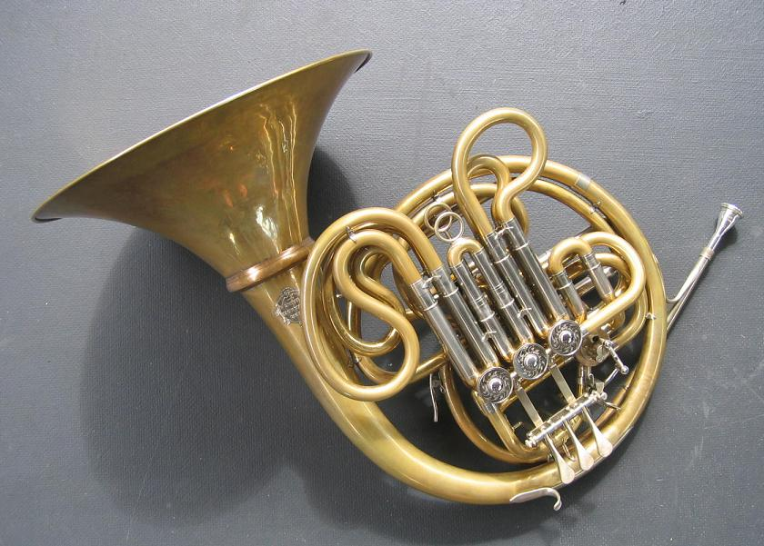 French horn